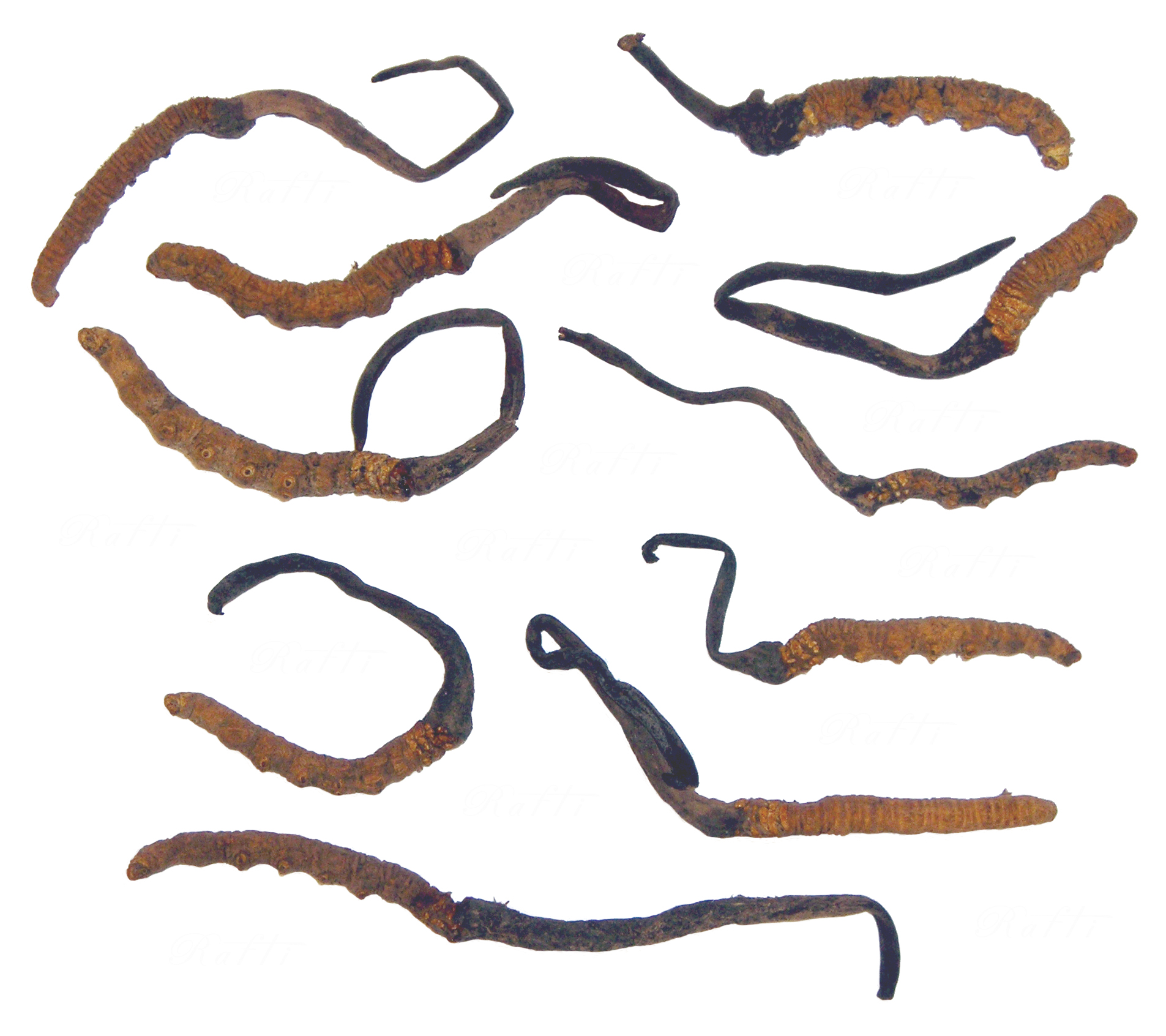 Cordyceps sinensis choice specimens, mostly whole. Created by William Rafti of the William Rafti Institute